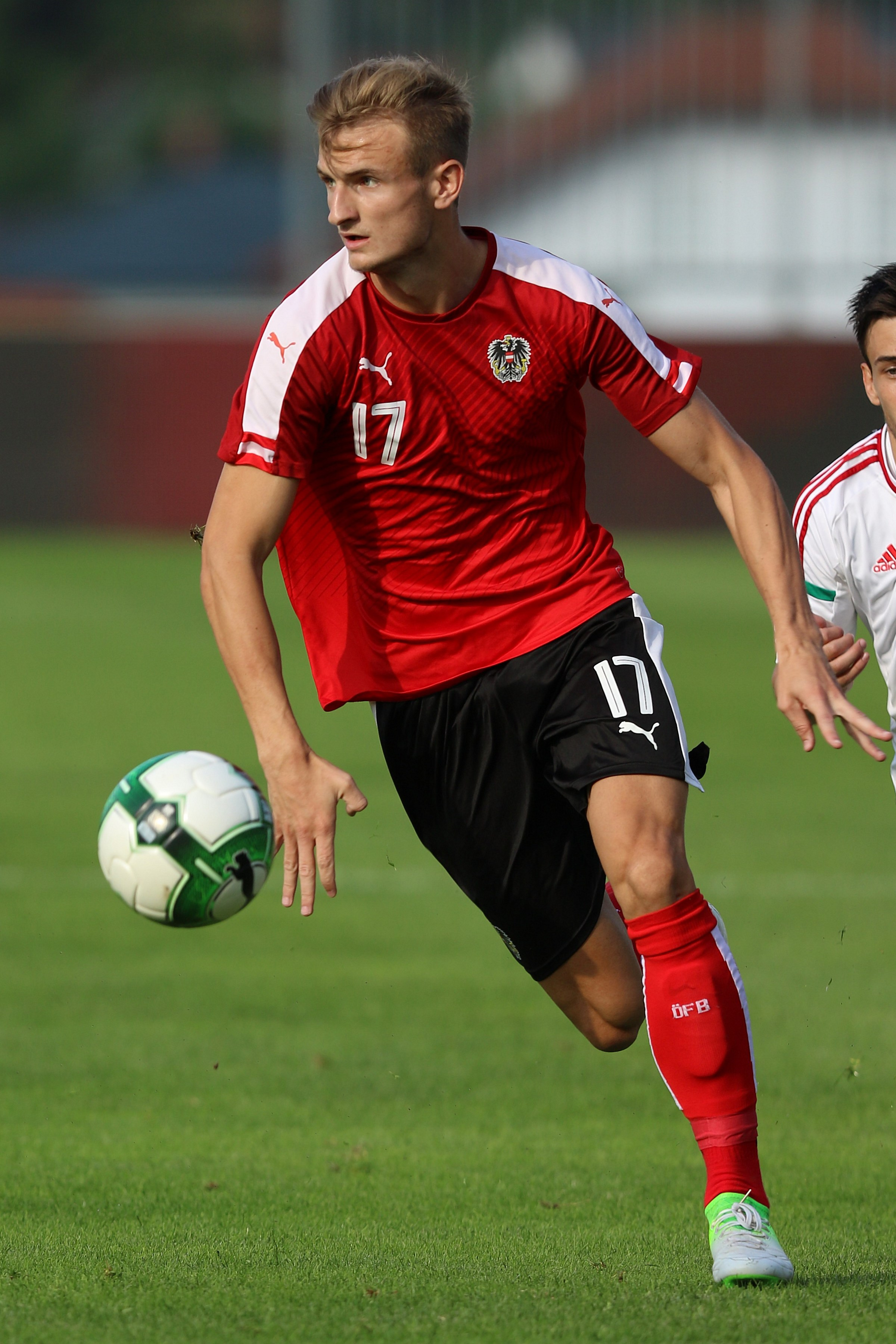 Friendly match: Austria U-21 (red shirts) vs. Hungary U-21 (white shirts) at 12. June 2017 in the Sonnenseestadion in Ritzing 2:1 (1:1) – The photo shows Stefan Posch (TSG 1899 Hoffenheim)